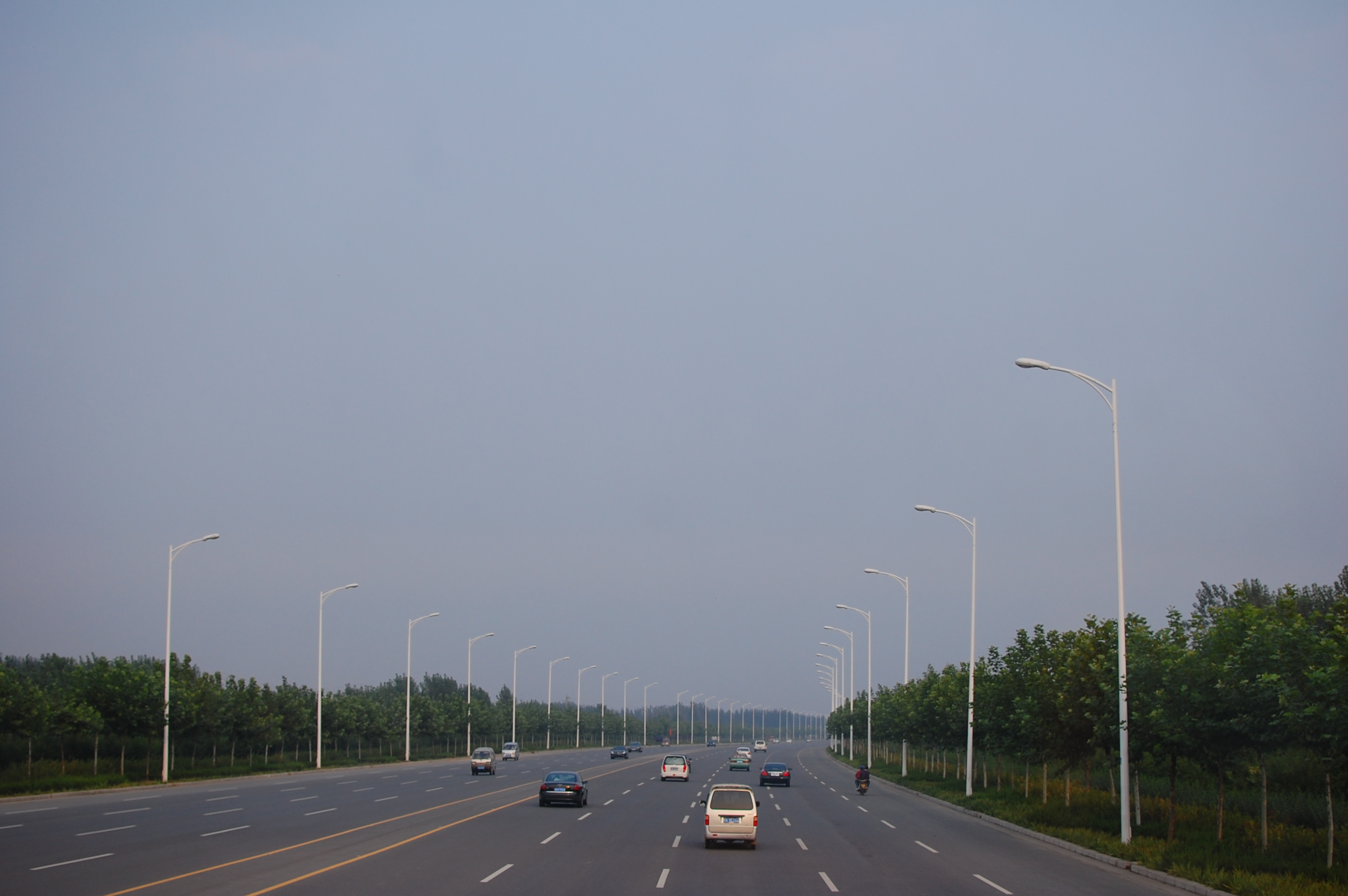 View from the top of a 7 RMB double-decker bus from Zhengzhou to Kaifeng. 郑州至开封间的郑开大道。图片摄于双层公交上层。